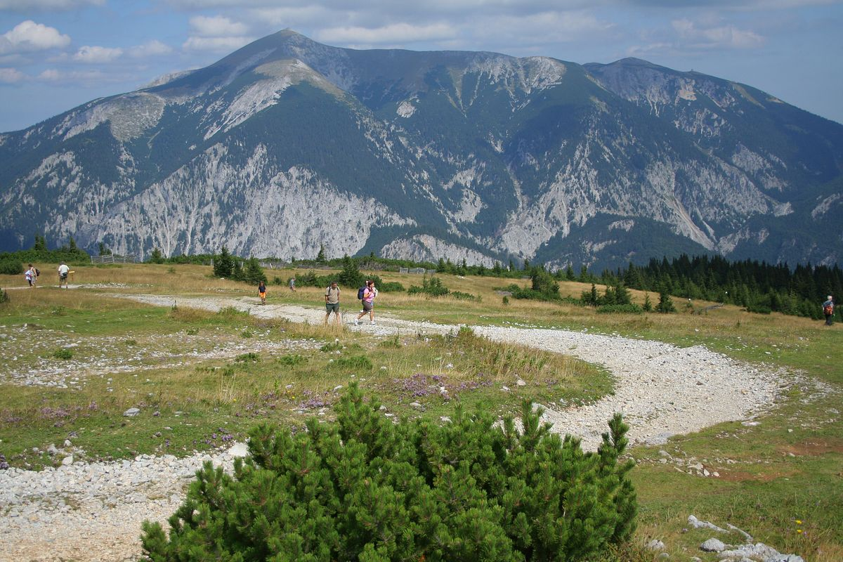 Hikers on the Rax, Schneeberg in the background. Lower Austria, Austria.